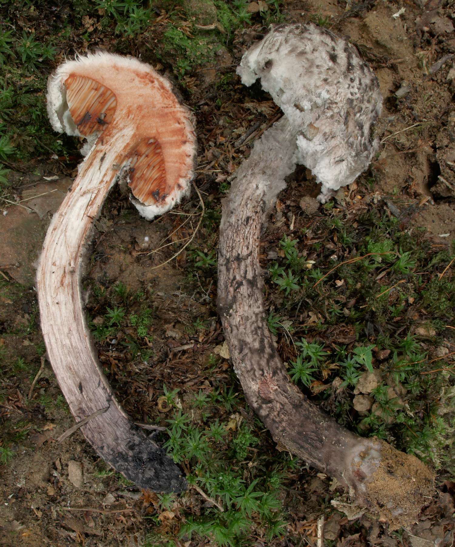 Old Man of the Woods (Strobilomyces strobilaceus)